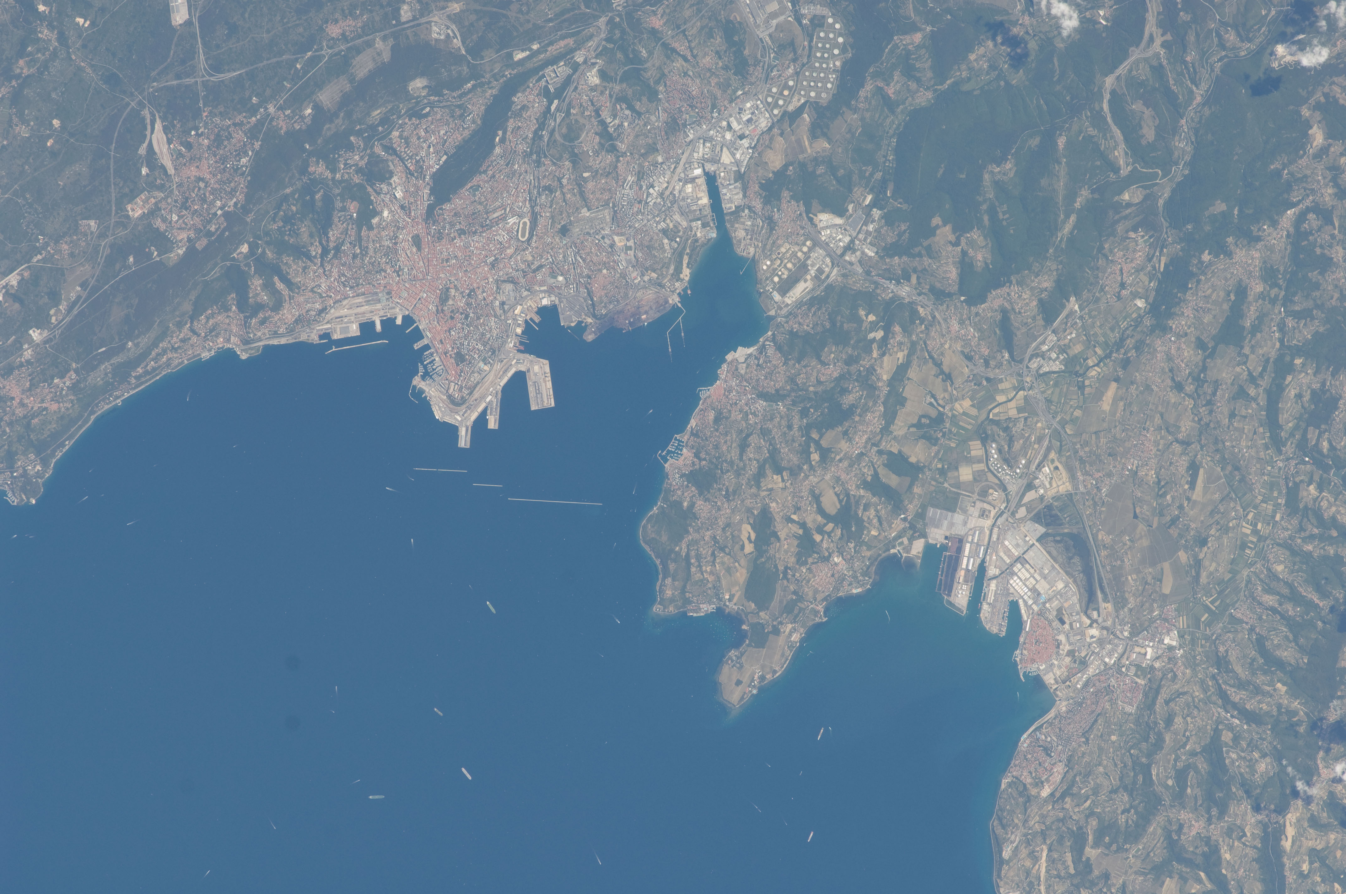 Trst, Koper and surrounding areas